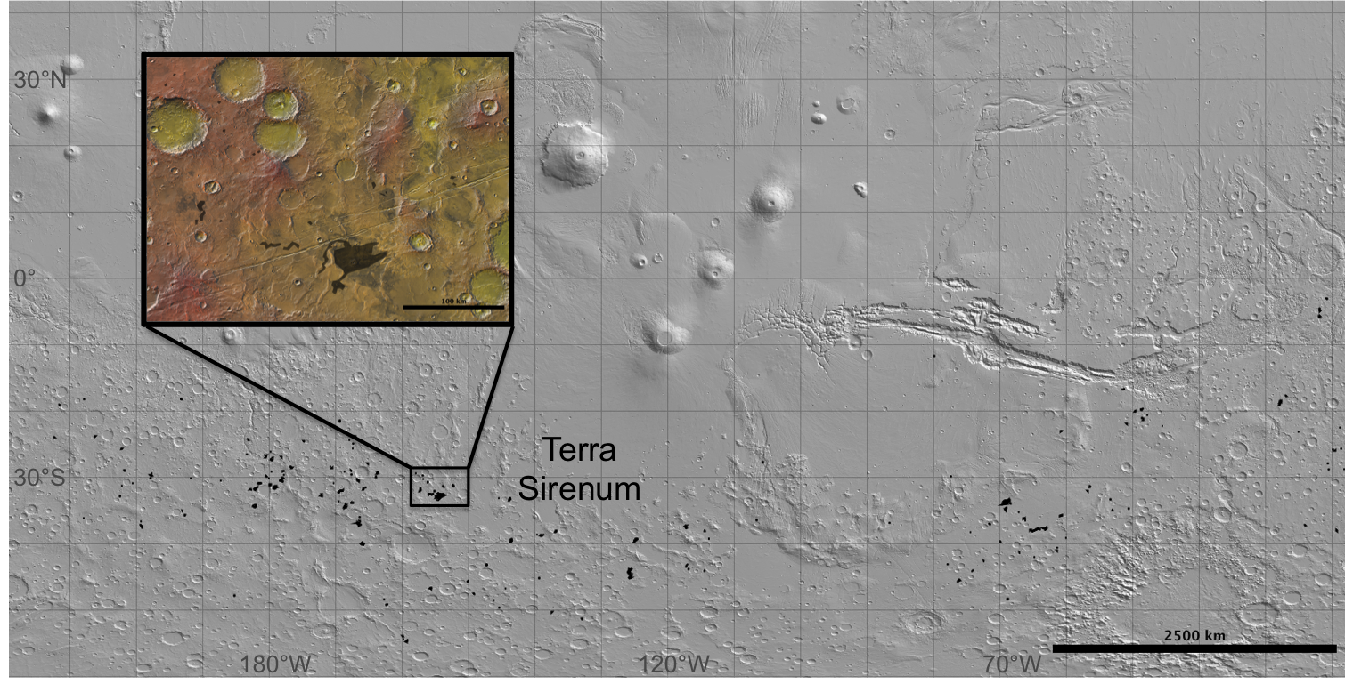 Chloride deposit locations on Mars as determined by Mikki Osterloo et al. The inset shows deposits in the Terra Sirenum region. Colors in the inset represent elevation.